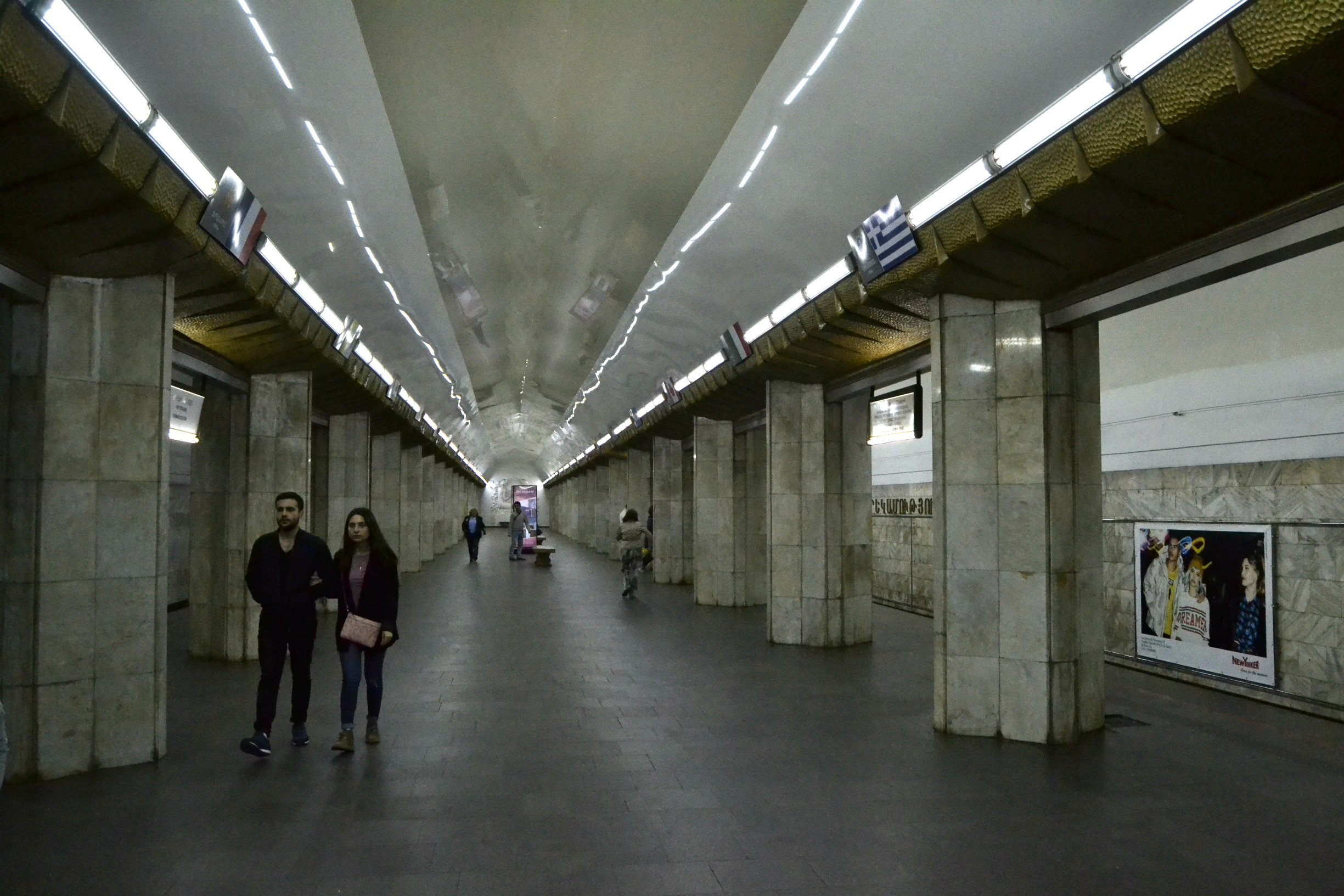 Barekamutyun metro station